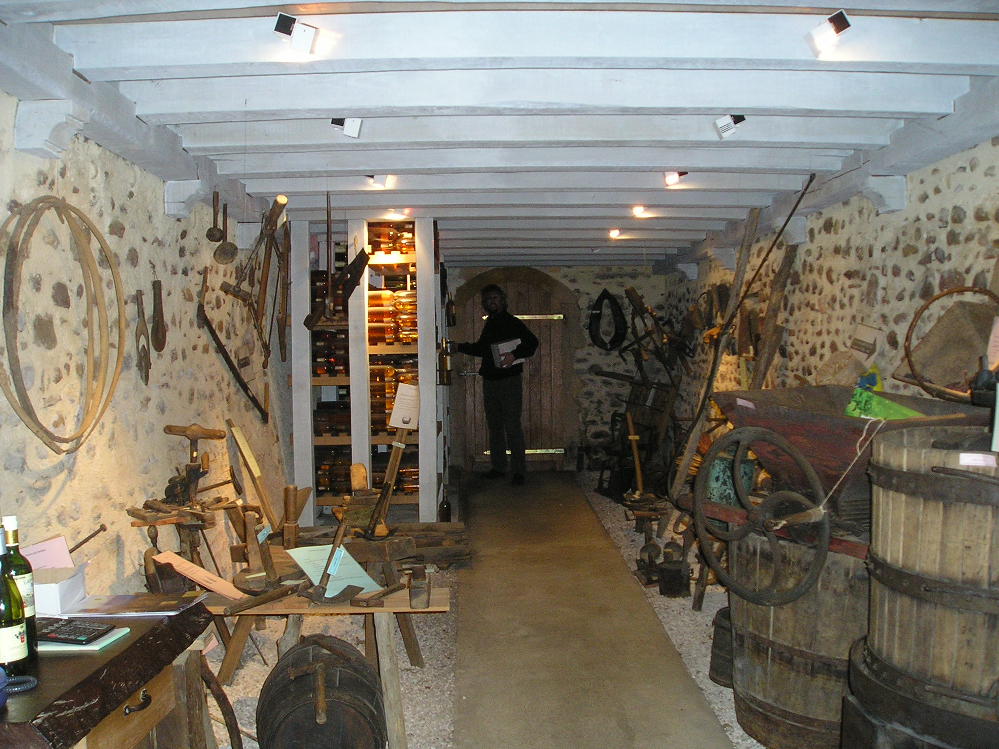 A Little Museum of Wine at Clos Lapeyre Jurançon